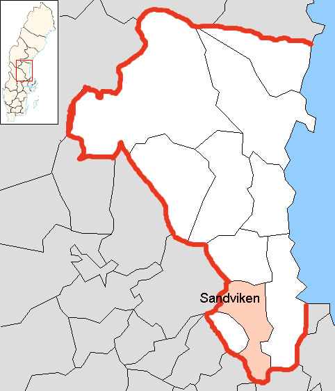 Sandviken Municipality in Gävleborg County Designd by me, based on Image:Gävleborg County.png